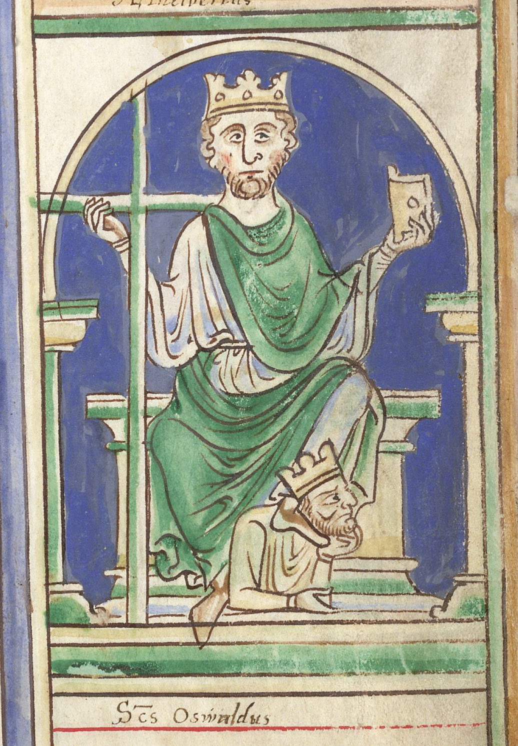 Illuminated manuscript showing Oswald of Northumbria, from Epitome of Chronicles of Matthew Paris